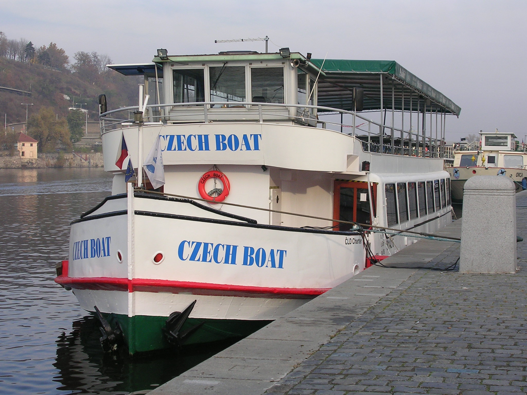 Prague, Czech Boat ship.